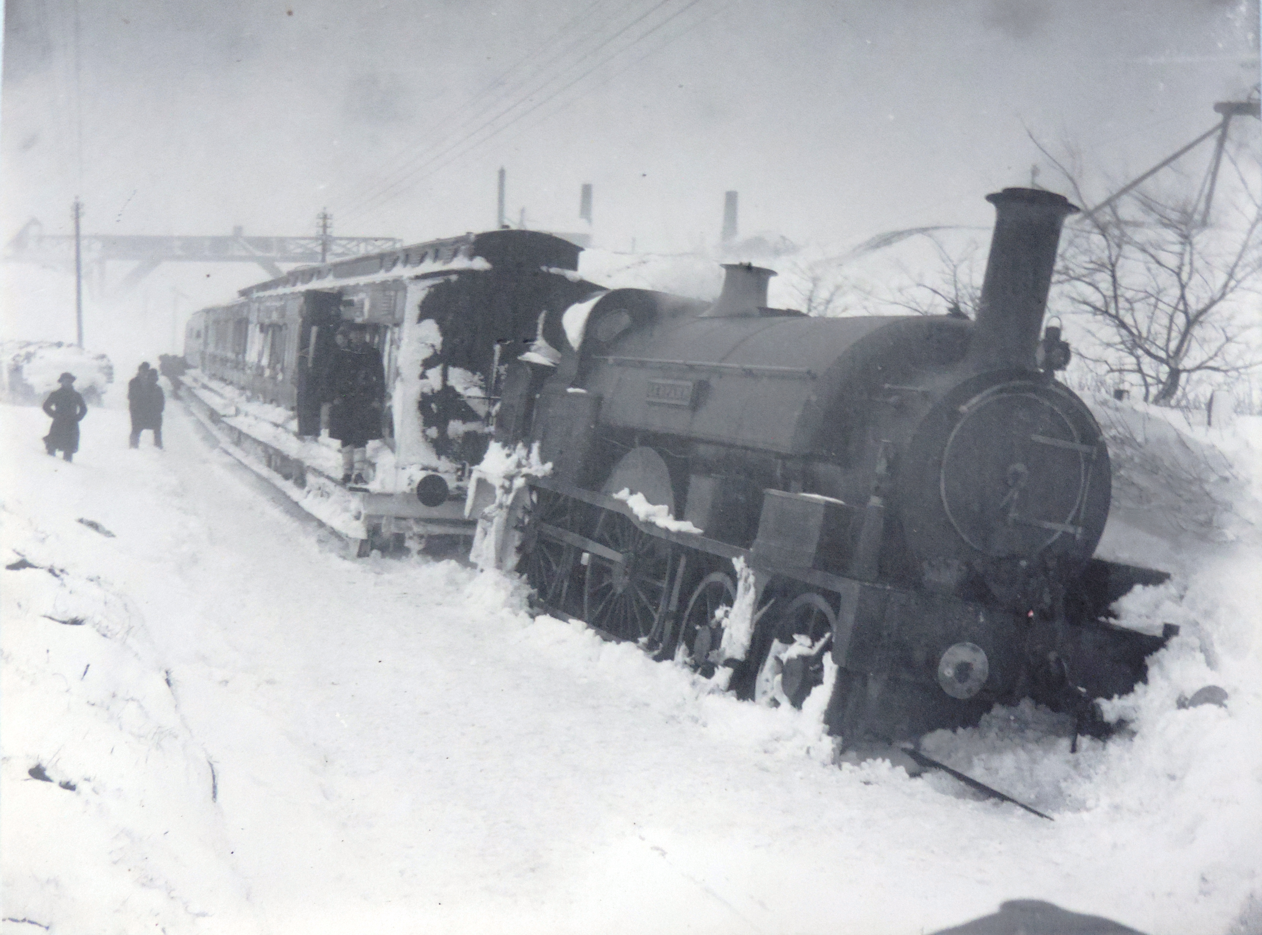 Great Western Railway No. 2128 Leopard (ex South Devon Railway Leopard). SDR Leopard class, built by Avonside Engine Company (no. 894 or 895 of 1872). SDR absorbed by the GWR 1 February 1876. Scrapped June 1893. Seen here after derailing in a blizzard near Camborne, Cornwall on 8 March 1891.